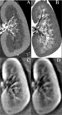 First thermoacoustic image of biologic tissue - lamb kidney